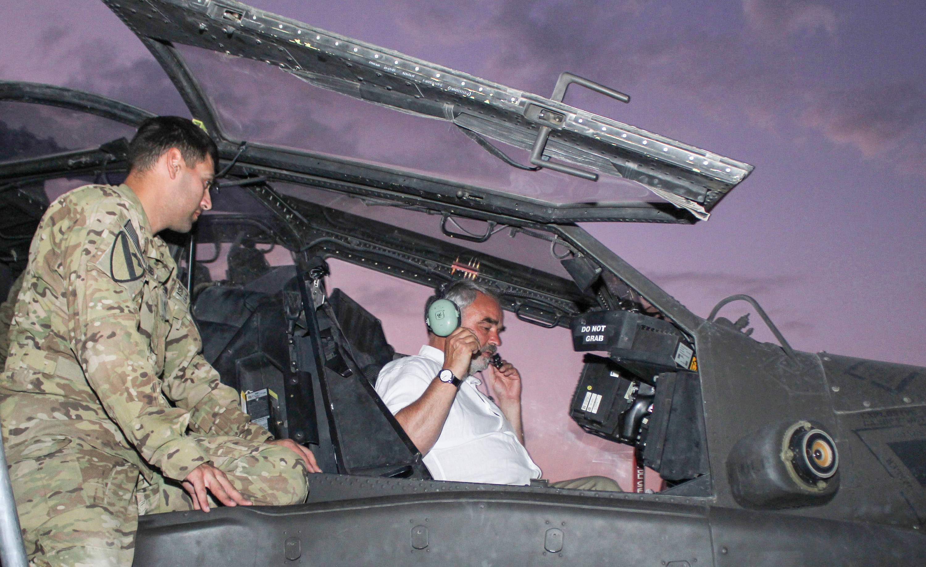 CAMP MARMAL, Afghanistan -- Sec. Thomas Kossendey, Germany's deputy defense minister, sits in the cockpit of an AH-64D Apache attack helicopter as a pilot from Task Force Lobos,1st Air Cavalry Brigade, 1st Cavalry Division, explaines the intricacies of the aircraft during a visit to 1st ACB Soldiers at Camp Marmal Aug. 31. During his visit, Kossendey saw firsthand the relationship between the Germans and the 1st ACB in Regional Command North, which is led by the Germans, and he said that partnership is important to overall mission success in Afghanistan.